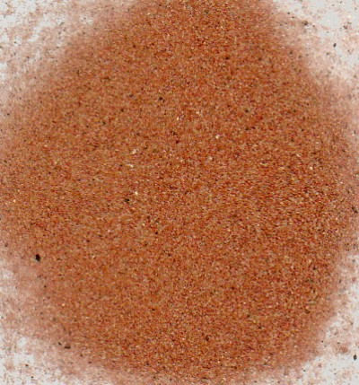 Photo scan of a soil sample of sandstone